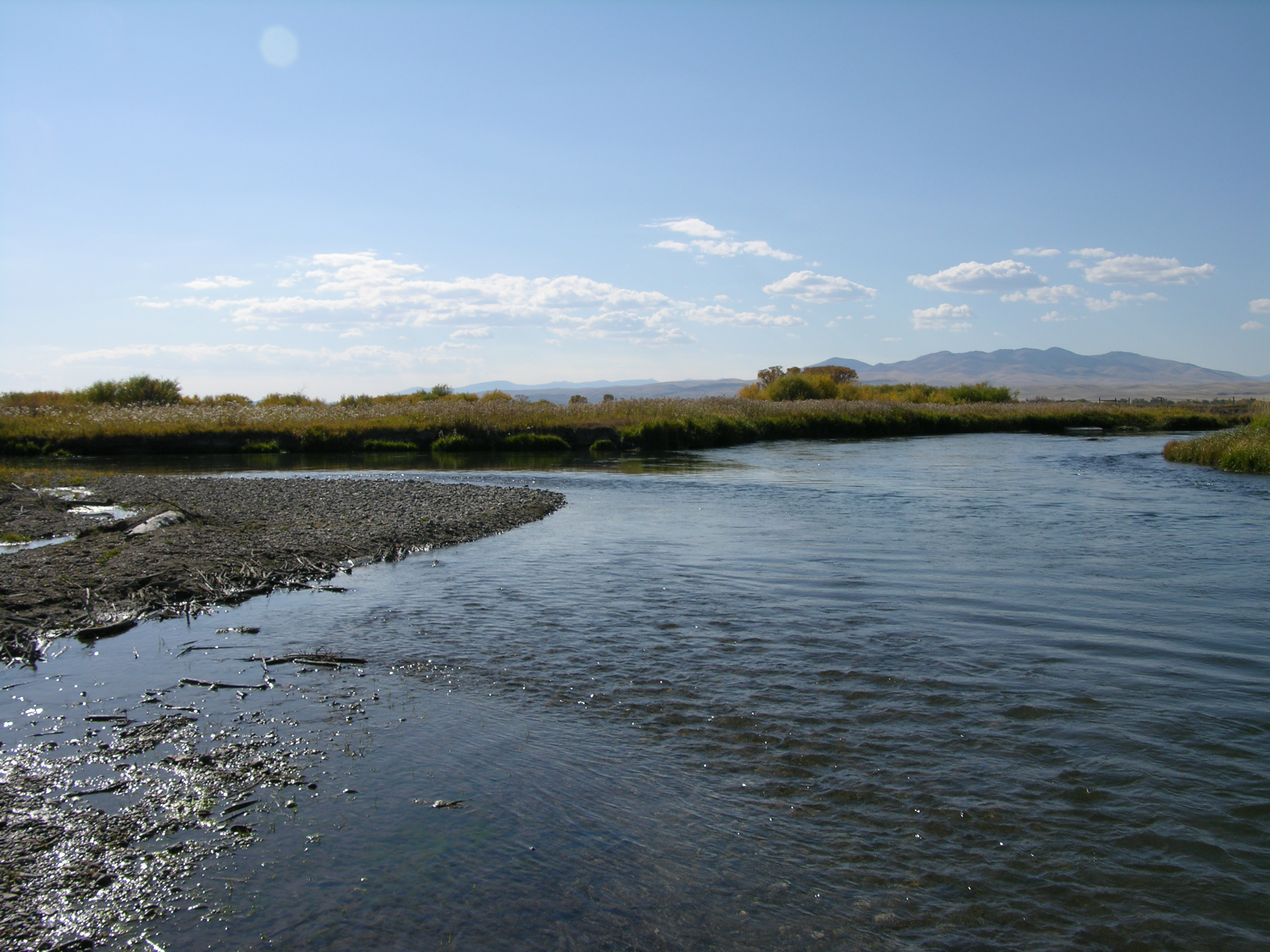 Confluence of the Ruby and Beaverhead rivers, just south of Twin Bridges, Montana